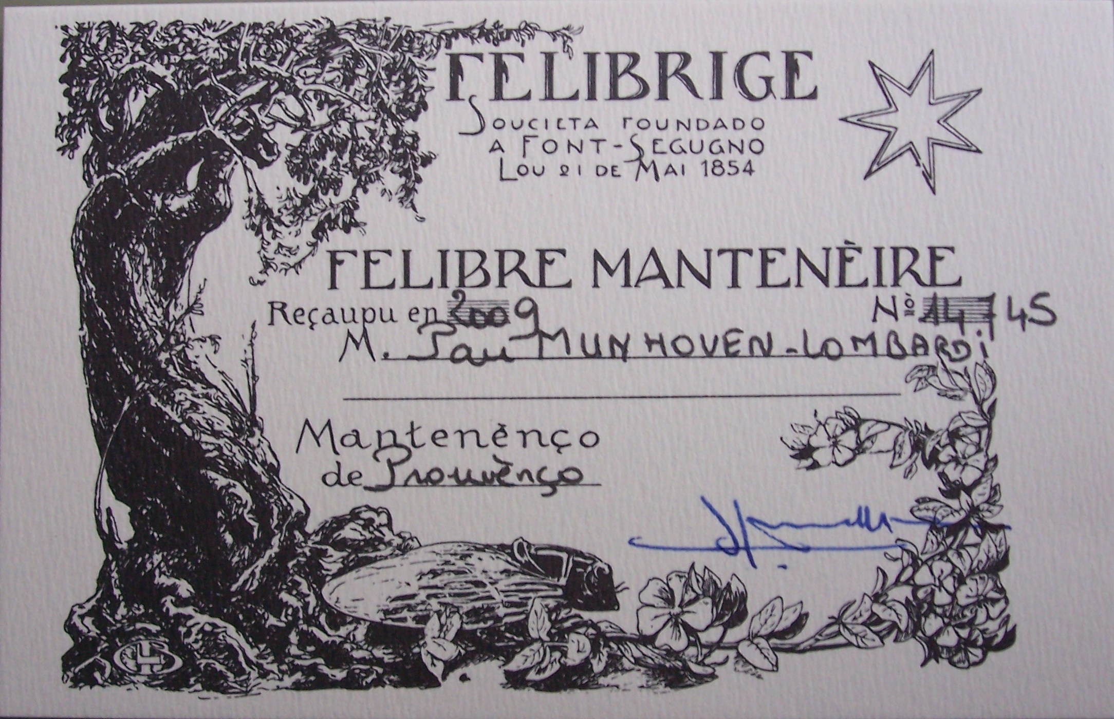 Card of félibrige